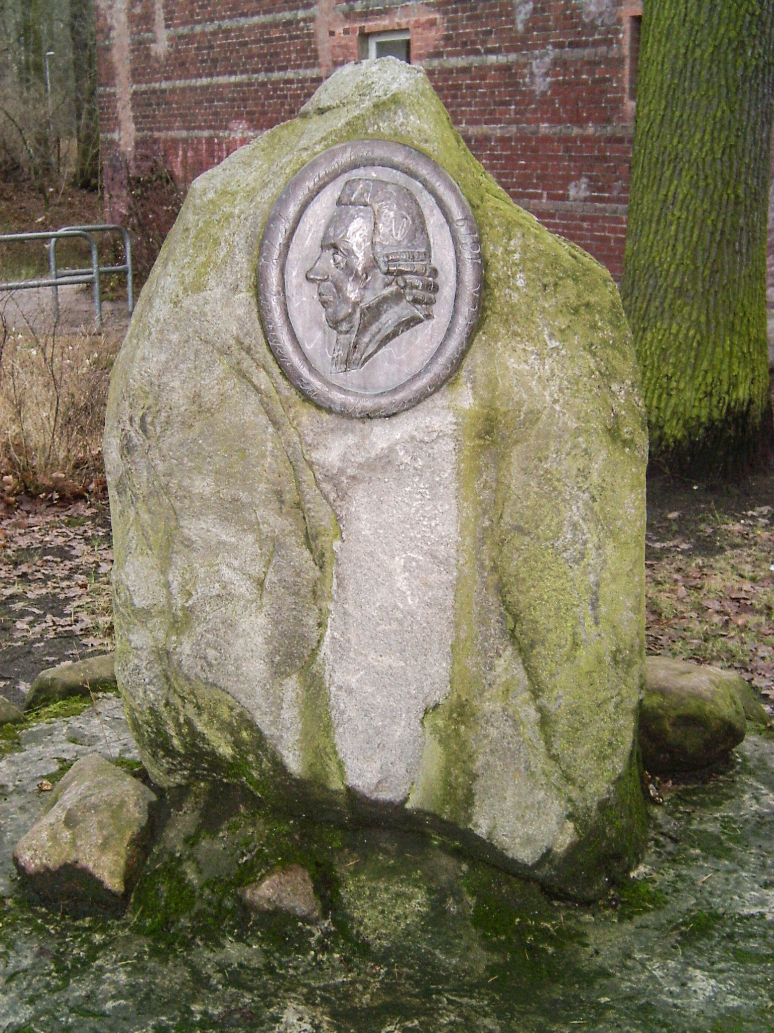 Raymund Dapp Memorial in Schöneiche, Brandenburg, Germany